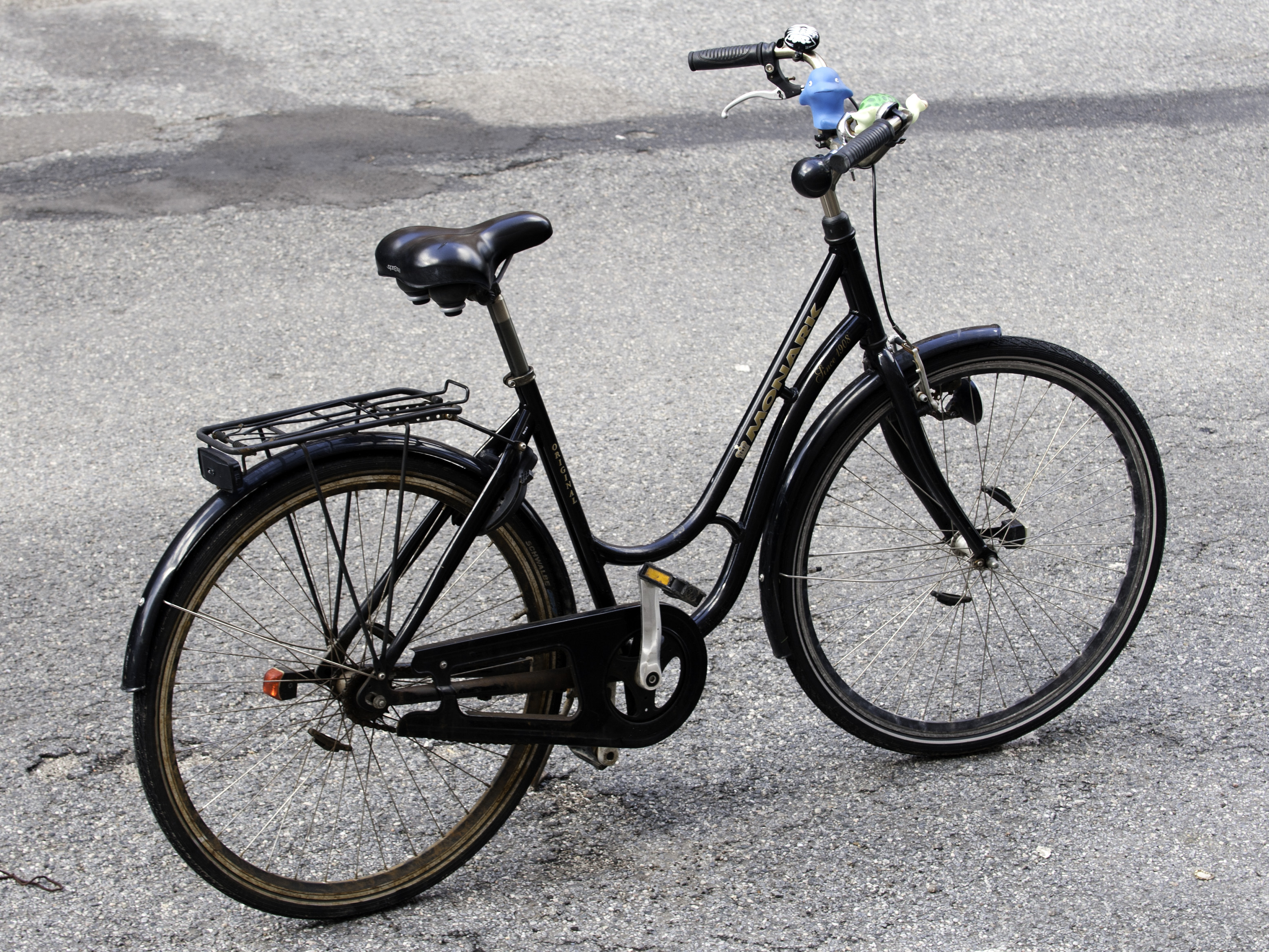 Female bicycle in Denmark